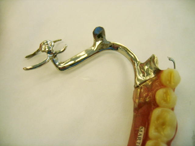 An example of a removable partial denture.